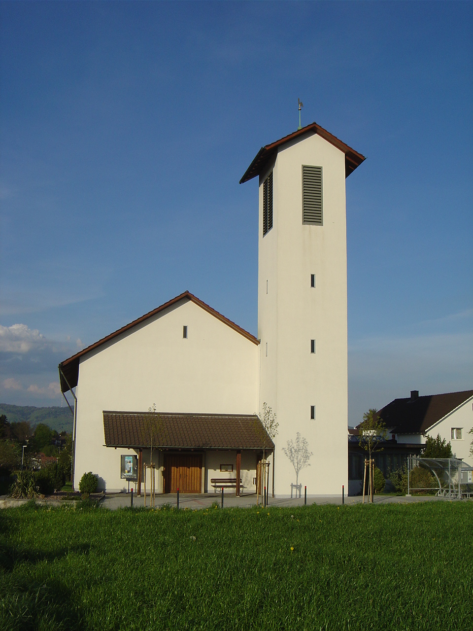 Reformed church in Möhlin